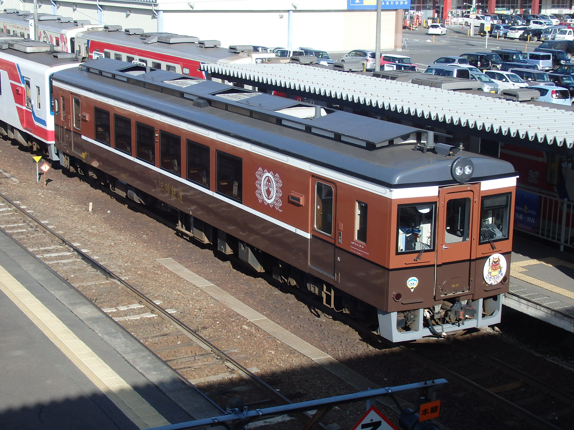 Sanriku Railway Type 36-Z Diesel Multiple Unit.